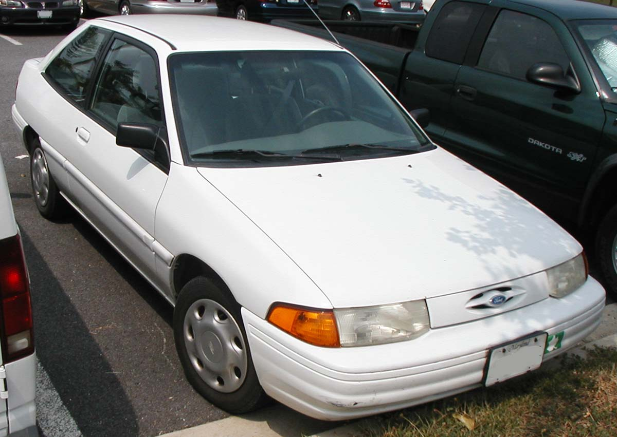 1995-1996 Ford Escort hatchback photographed in USA.